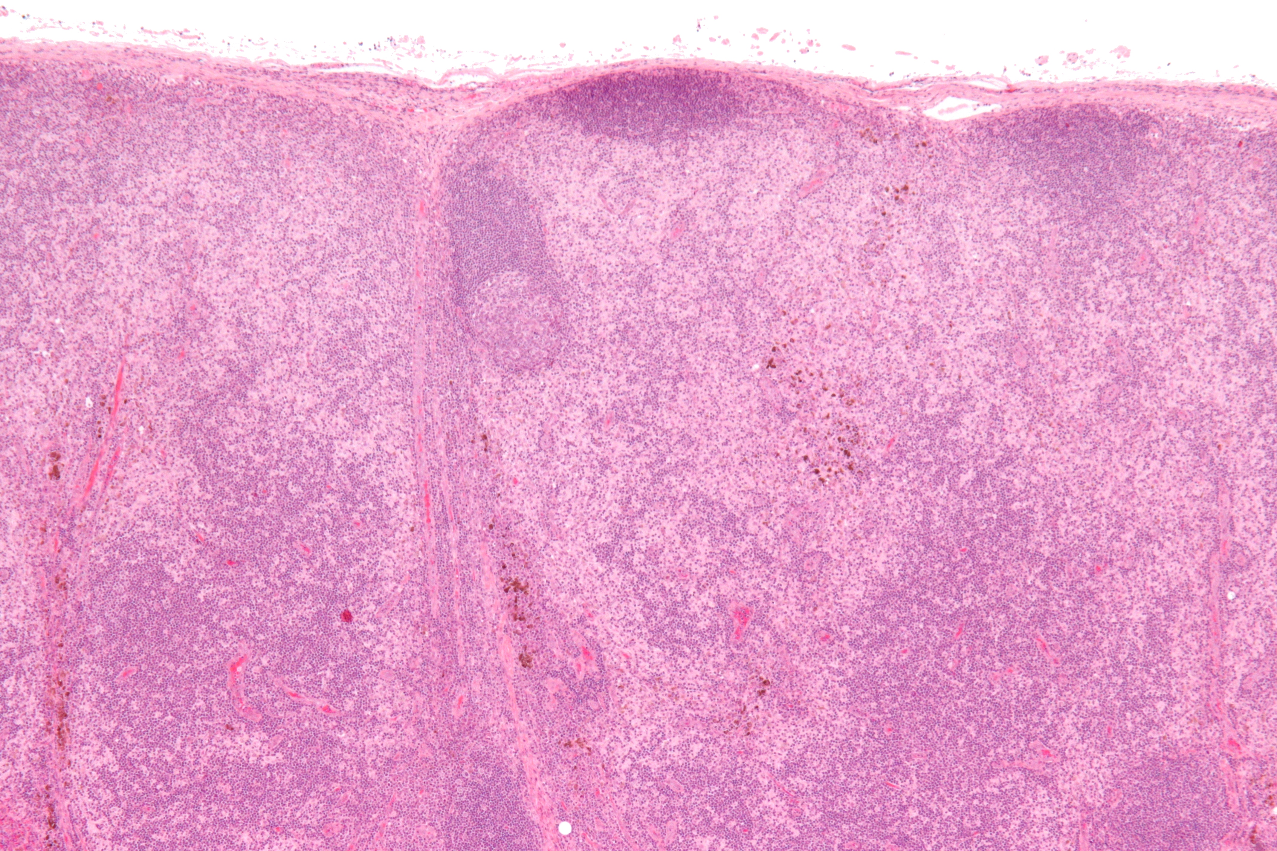 Low magnification micrograph of dermatopathic lymphadenopathy, also dermatopathic lymphadenitis. H&E stain. Features: Paracortical (sinus) histiocytosis. Melanin pigment. Using special stains one can demonstrate abundant interdigitating dendritic cells (S100 positive, CD1a negative) and Langerhans cells (S100 positive, CD1a positive). Related images Very low mag. Intermed. mag. High mag. Very high mag.